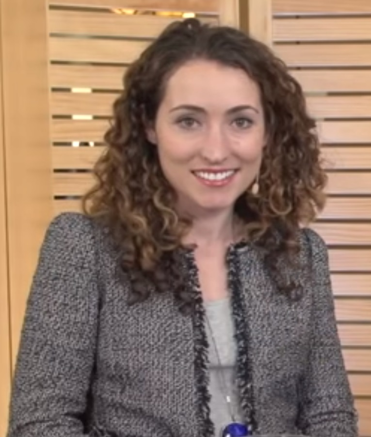 American biostatistician Daniela Witten, University of Washington, talks with Lisa Martin of SiliconAngle TheCube at WiDS 2018 at Stanford University.